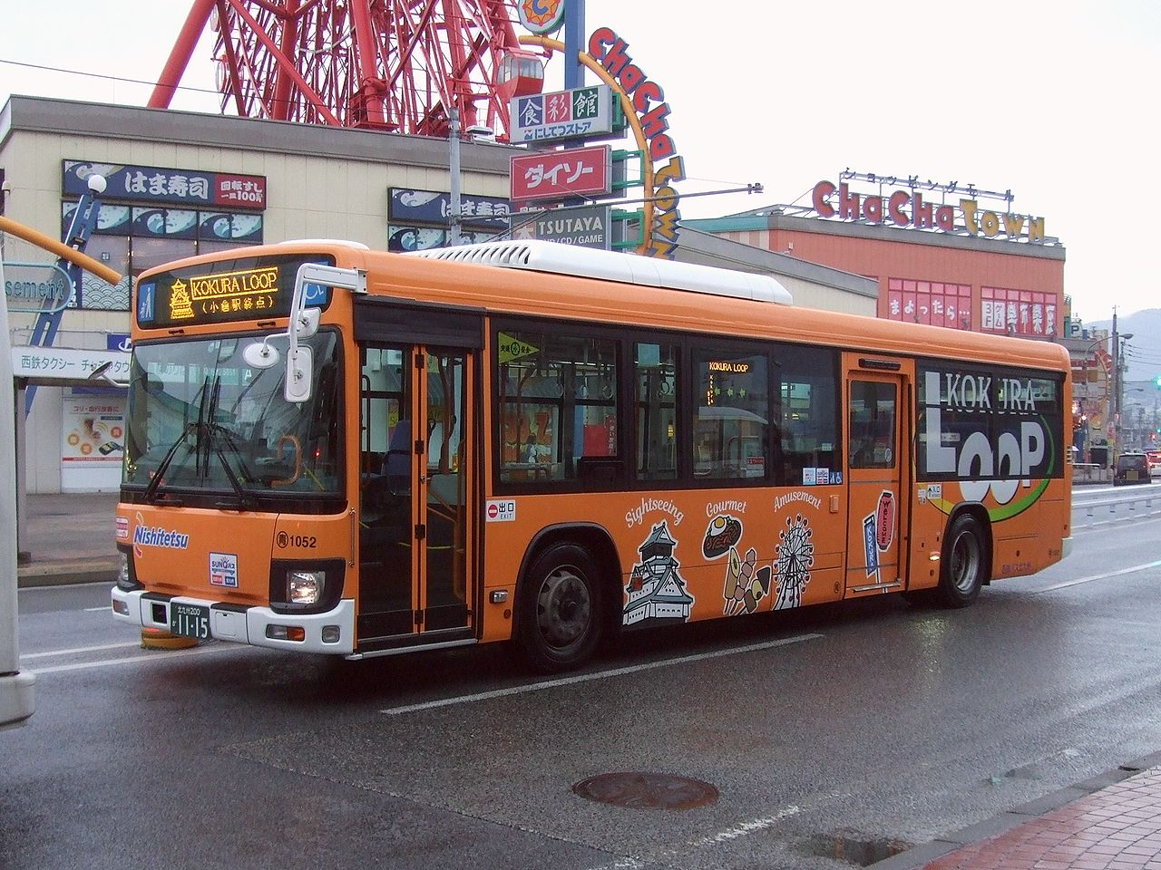 Nishitetsu Bus "Kokura Loop Bus", in Kitakyushu City. Company:Nishitetsu Bus Kitakyushu Use:transit bus Car license:FOK200 KA 1115 Belongs to:Aoba Depot Code:1052 Chassis manufacturer:Isuzu Motors Type:Erga Coachbuilder:J-BUS Location:In Kokura-Kita Ward, Kitakyushu City, Fukuoka, Japan.